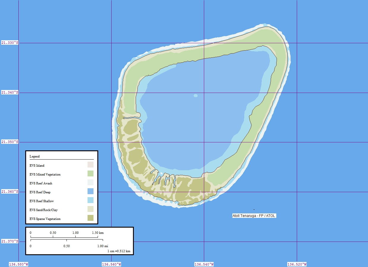 EVS precision islands map of Tenarunga Atoll, Tuamotu Archipelago, French Polynesia